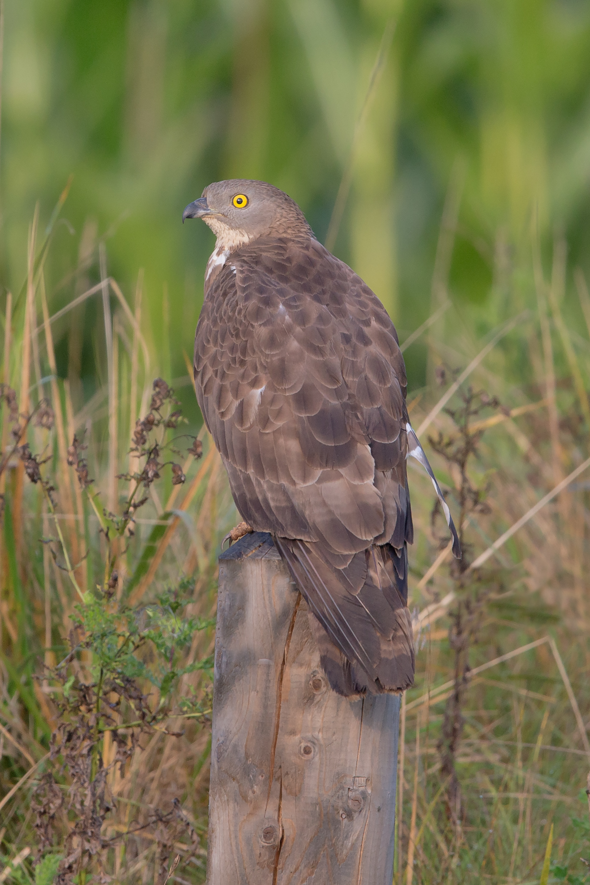 European honey buzzard in Germany